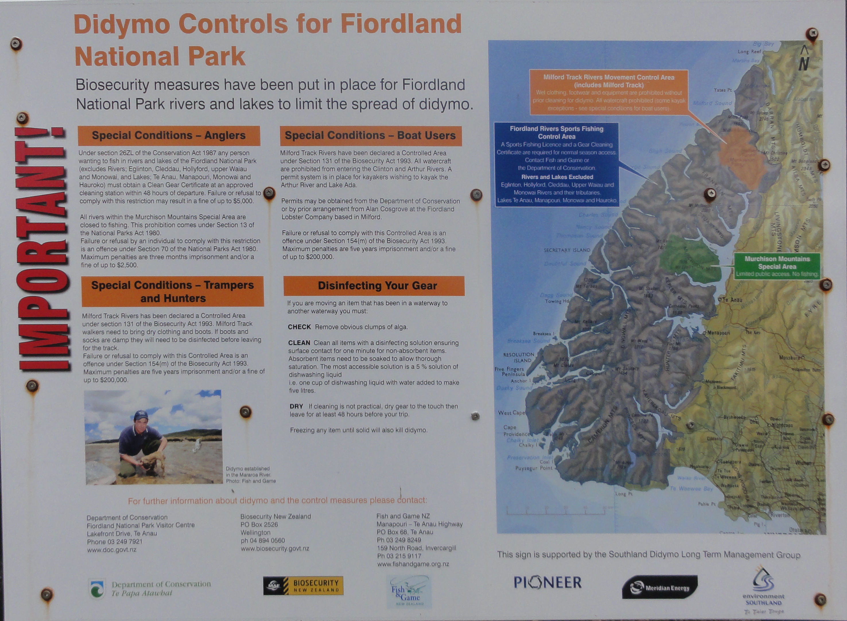 Warnings sign to prevent spread of didymo algae, Lake Te Anau, NZ